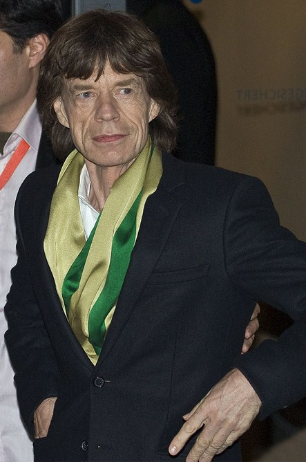 Mick Jagger, Opening of the 58th Berlin International Film Festival